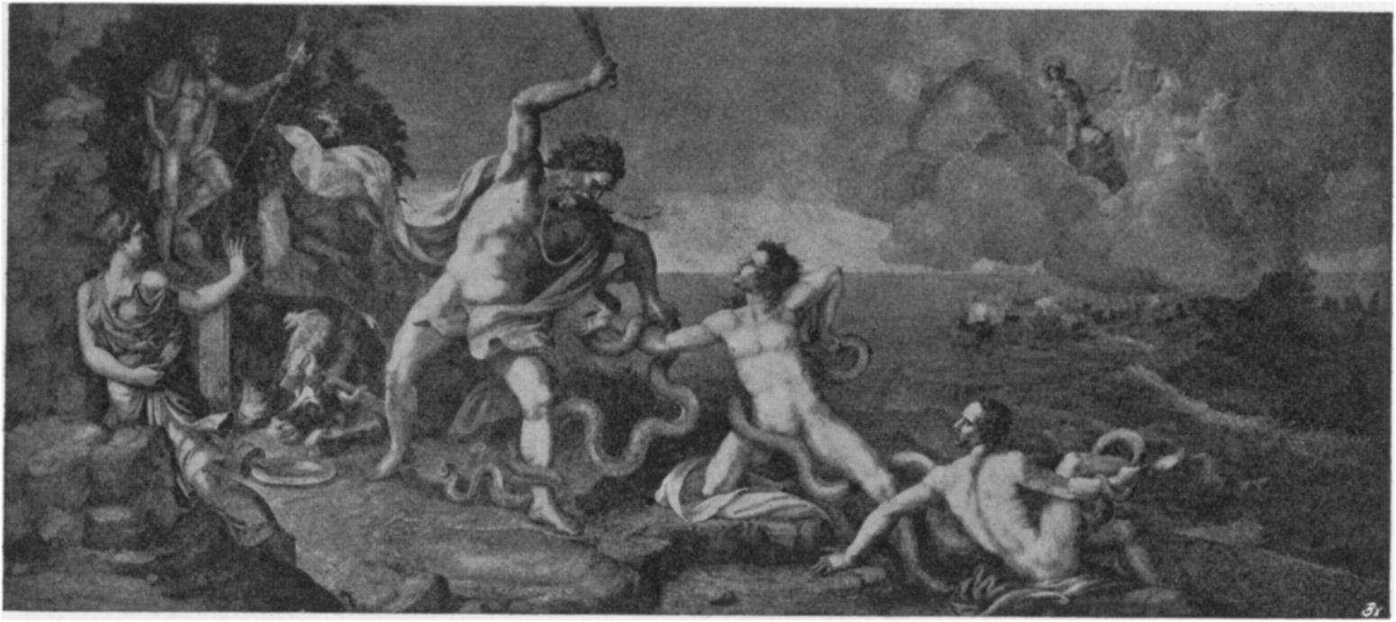 Fresco made by Giulio Romano in Mantua, Alinari Nr 18698